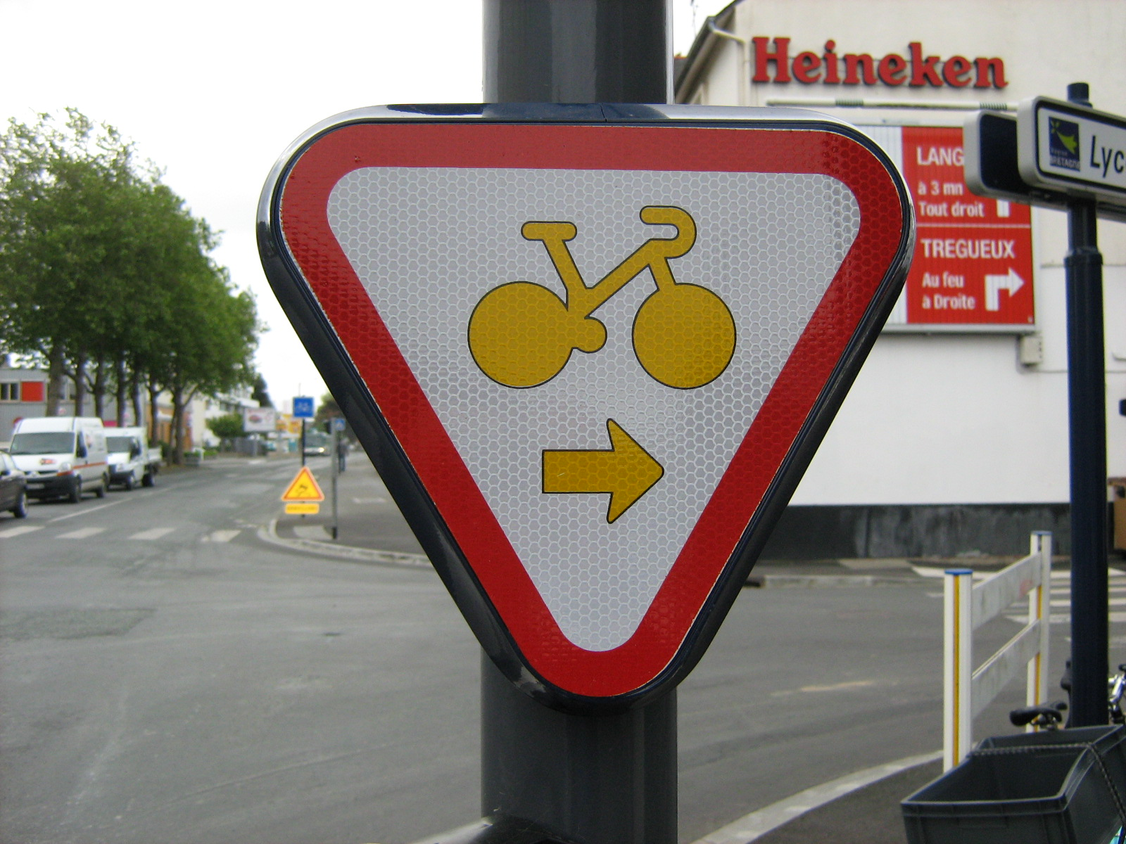 Belgian sign indicating to cyclists that they may treat the red light as a give-way if turning right.